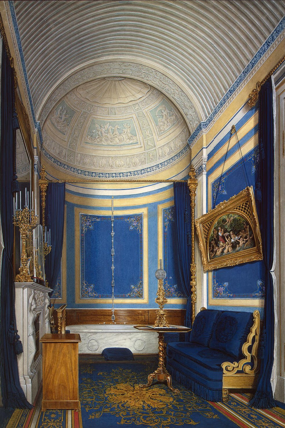 Interiors of the Winter Palace. The Bathroom of Grand Princess Maria Alexandrovna